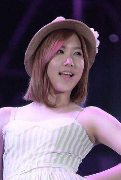 Hong Yookyung performing at the Hwaseong Fortress, 7 July 2012